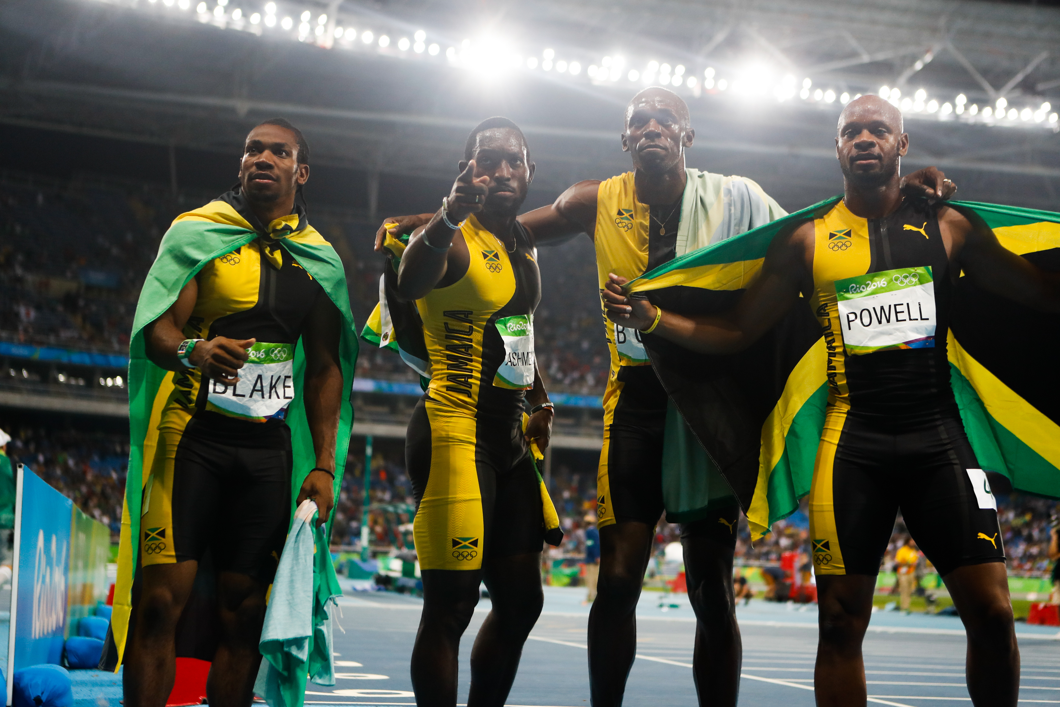 Rio de Janeiro - Usain Bolt ganha terceiro ouro nos Jogos Rio 2016 ao vencer o revezamento 4 x 100m com Asafa Powell, Yohan Blake e Nickel Ashmeade no Estádio Olímpico (Fernando Frazão/Agência Brasil)